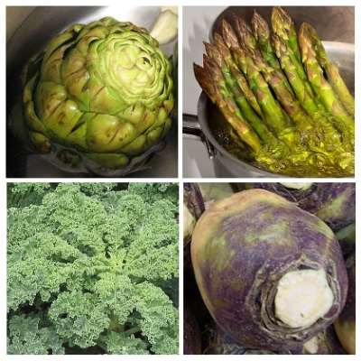 Four vegetables: clockwise from top left (i) artichoke, (ii) asparagus, (iii) swede, (iv) kale